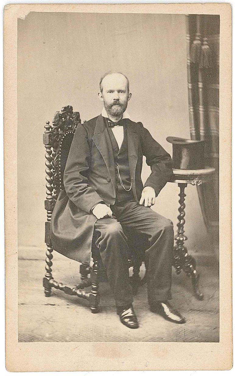 Albert Lysander (1822-1890), Swedish professor of latin and Roman literature at Lund University.